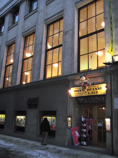 Exterior of the National Marionette Theatre in Prague, as taken from the street.